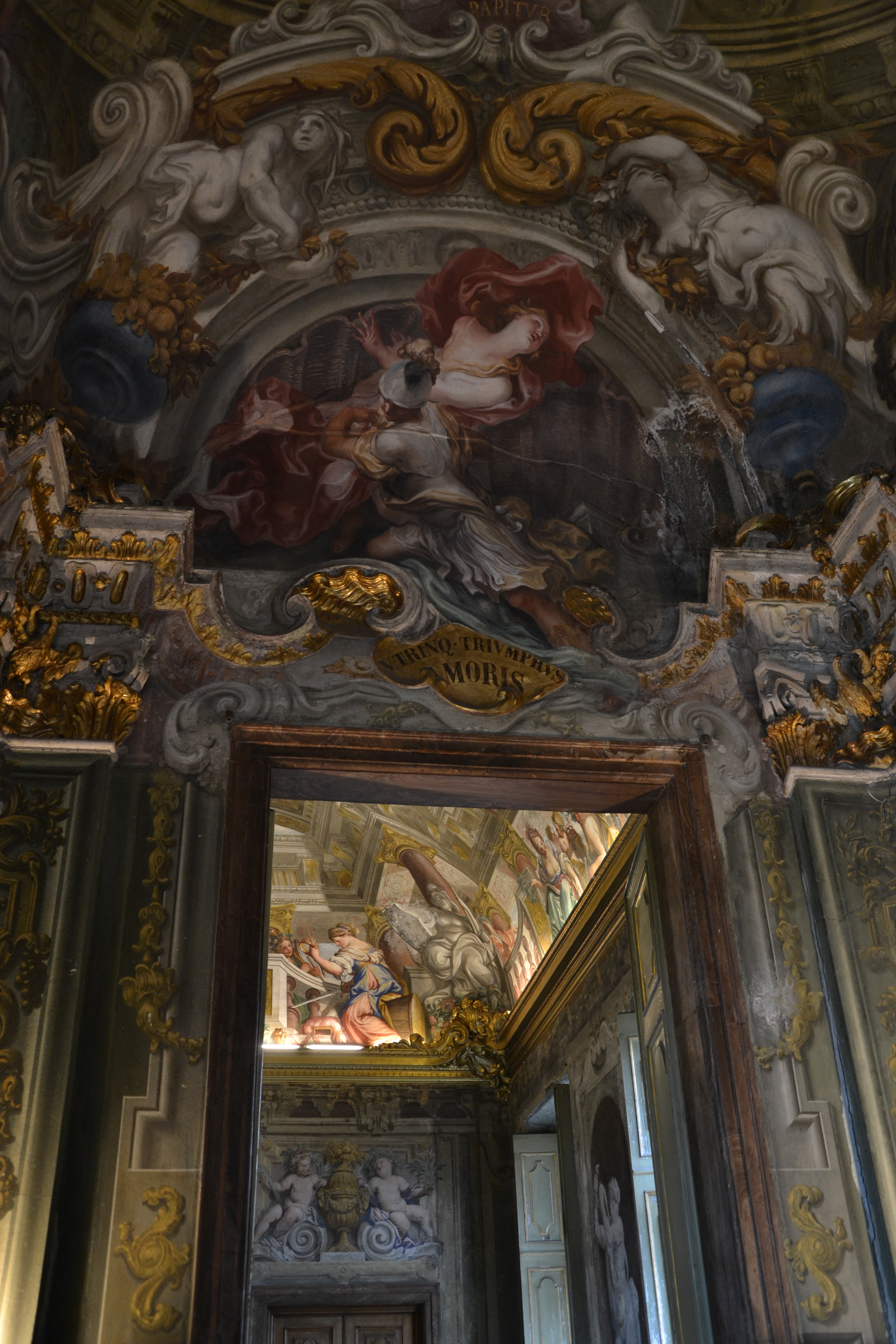 Palazzo Balbi Senarega, University of Genoa, Via Balbi 4 - Gregorio De Ferrari frescos (1654-59)